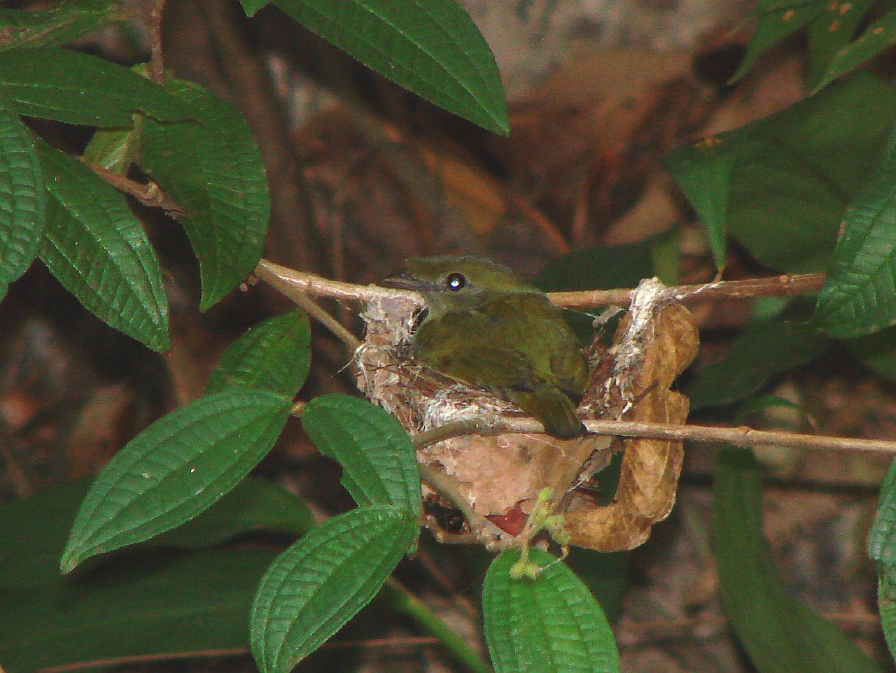 Female Araripe Manakin (Antilophia bokermanni) on nest, NE Brazil